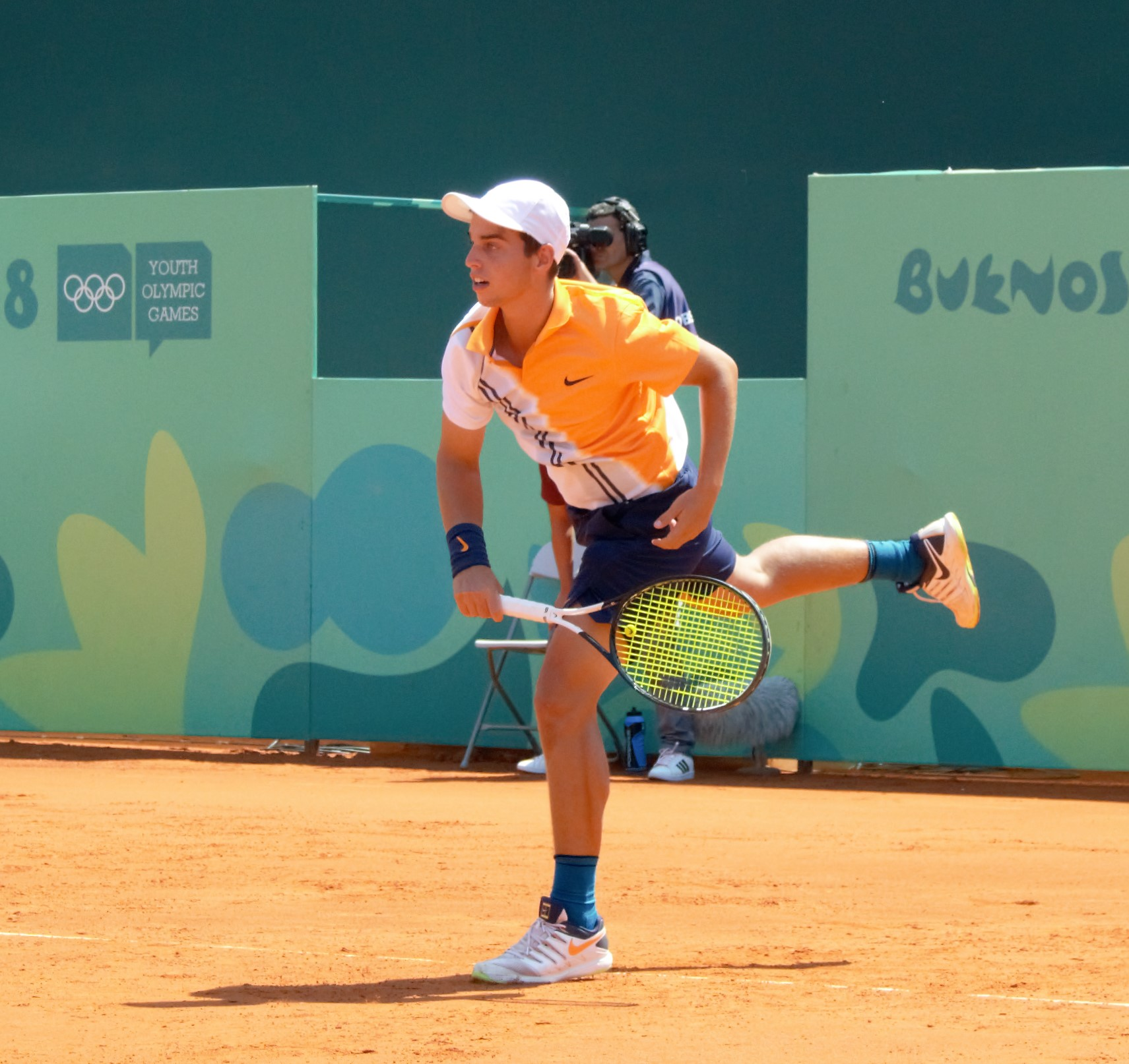 Tennis at the 2018 Summer Youth Olympics. Gold medal match, boys doubles.